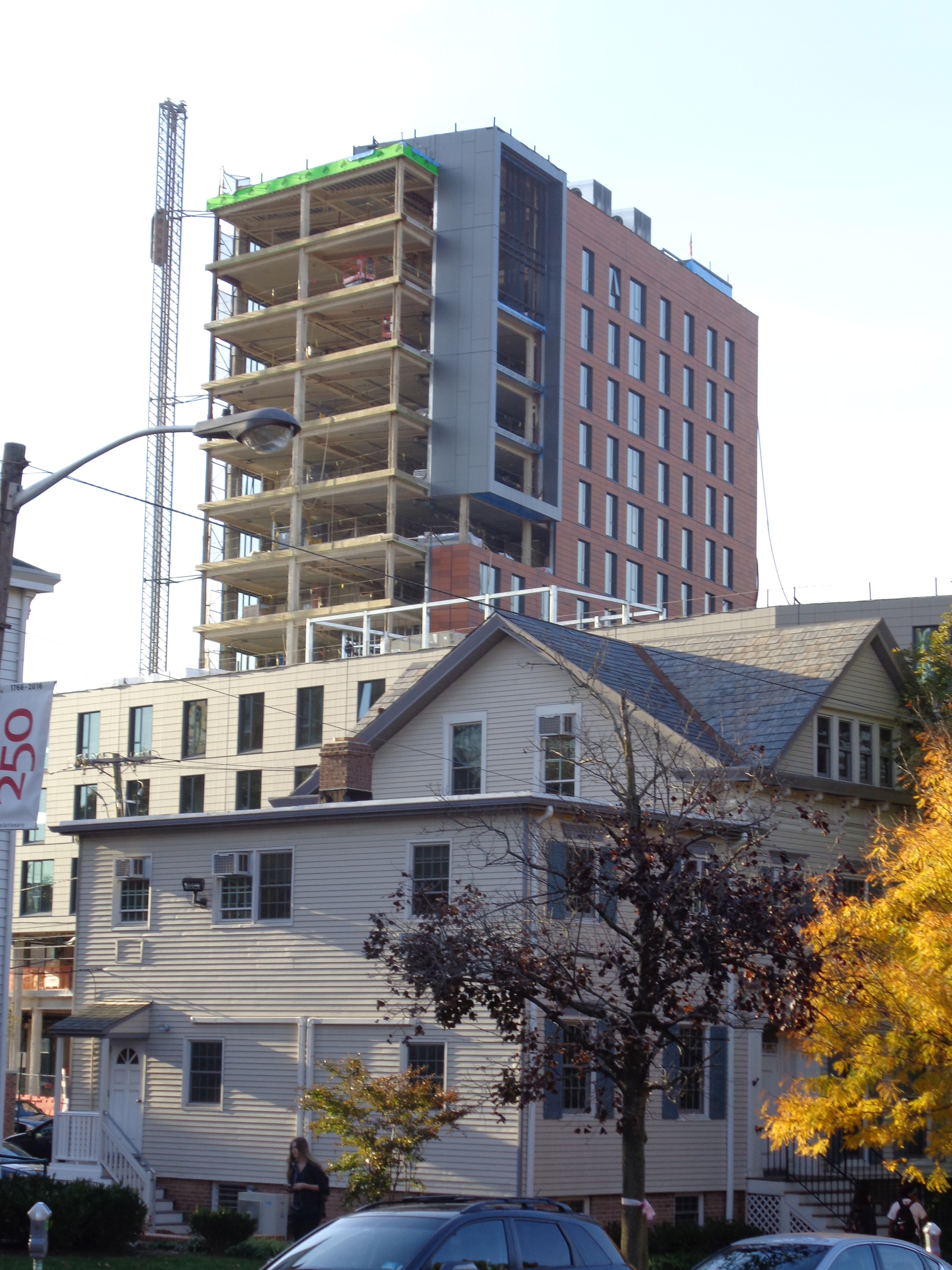 Rutgers New Brunswick Honor College Residence construction 2015